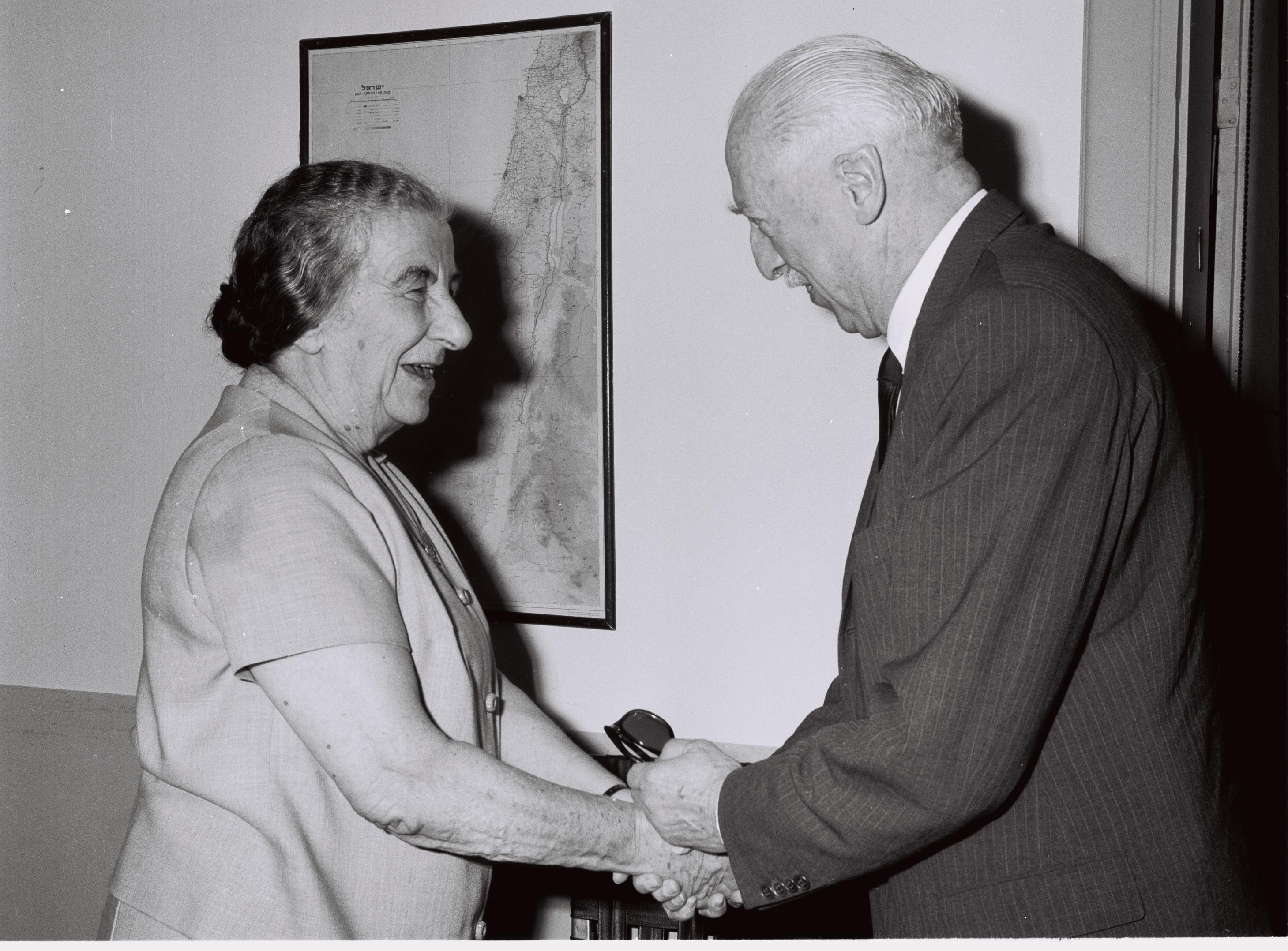 P.m. mrs. Golda Meir receiving general Pierre Koenig at her office at HaKirya, Tel Aviv.